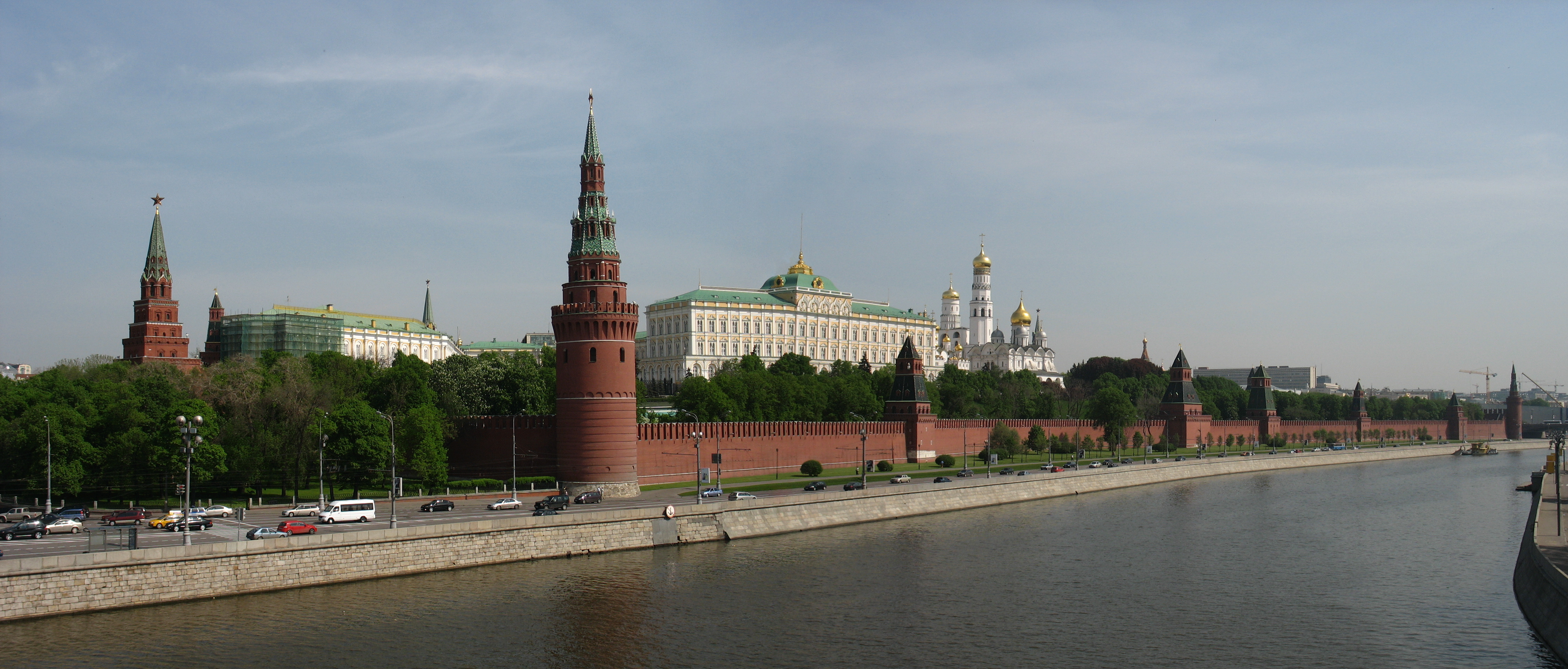 Panorama of Moscow Kremlin from Bolshoi Kamenny bridge